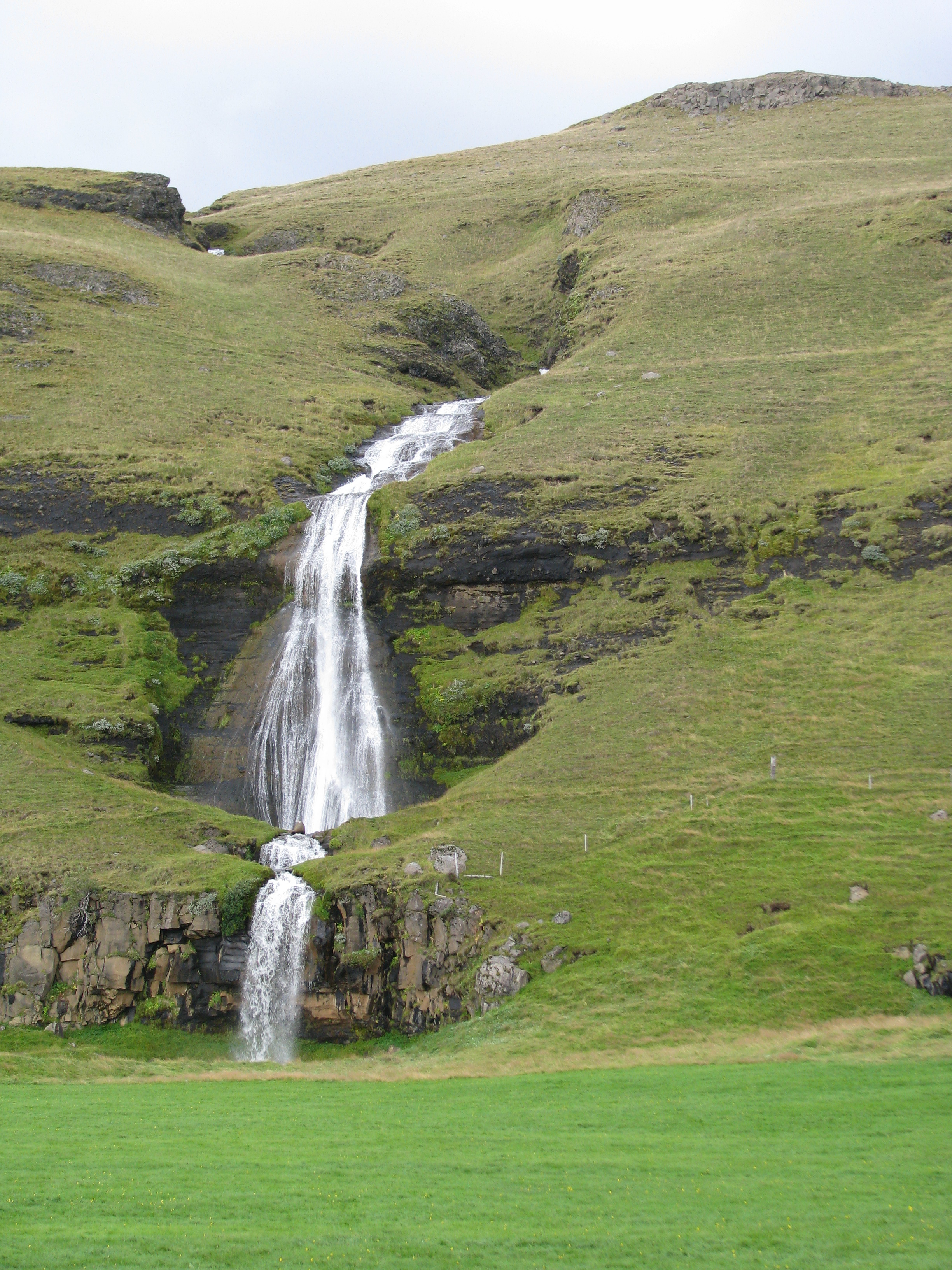 Þórdarfoss, waterfall, Iceland. Here Gunnar of Hlidarend, a main character in Njal's Saga, is buried.